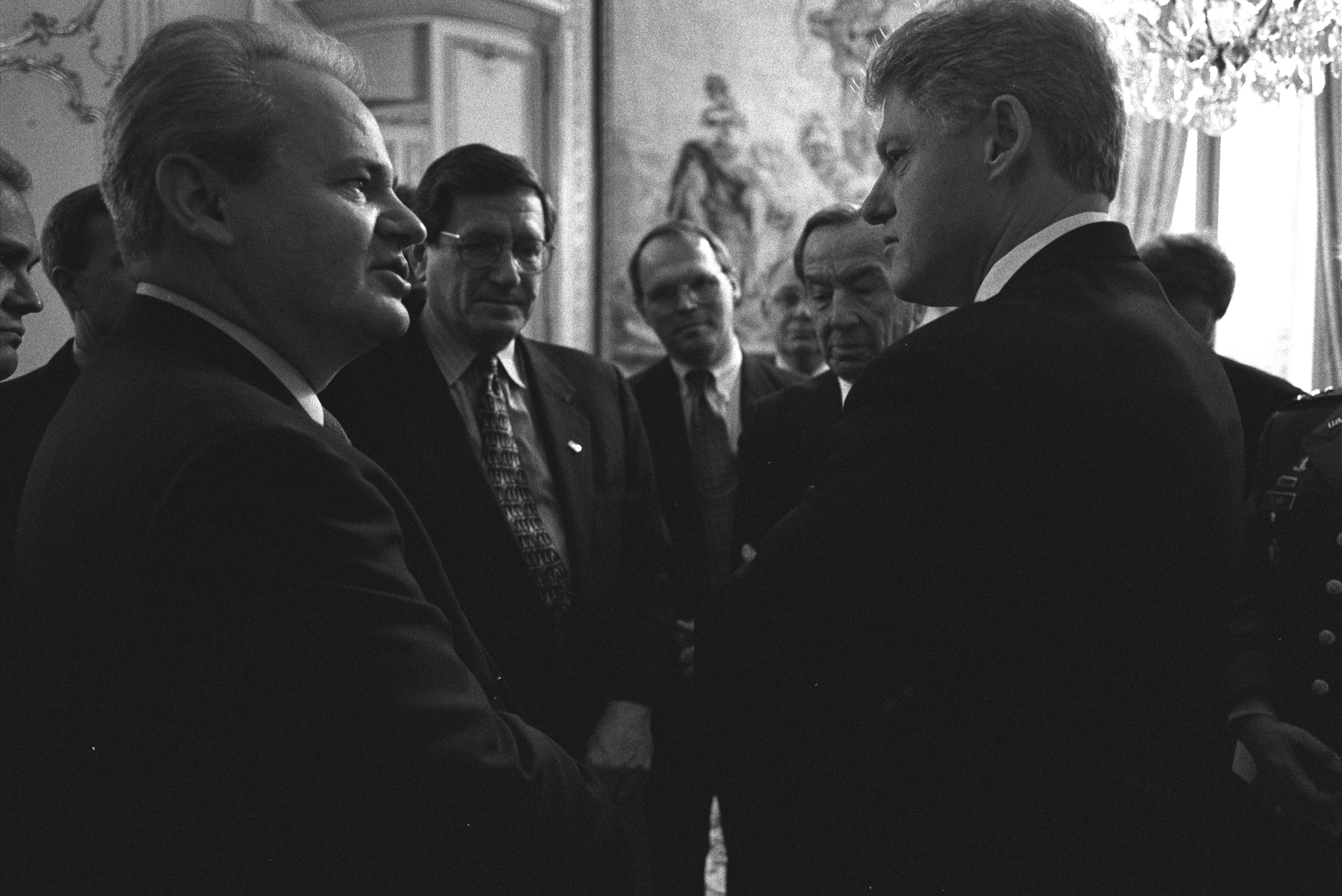 December 14, 1995: President Clinton talking with Serbian President Slobodan Milosevic at the Ambassador’s residence in Paris while Ambassador Richard Holbrooke, Secretary of State Warren Christopher, General Wesley Clark, and others watch. (Credit: William J. Clinton Presidential Library) Hosted by the Clinton Library and the Clinton Foundation, the document release was spearheaded by CIA’s Historical Review Program (HRP), which identifies, collects and produces historically relevant collections of declassified materials. The Bosnia collection—the youngest ever released in HRP’s 20-year existence—is available online at A video recording of the symposium is available at